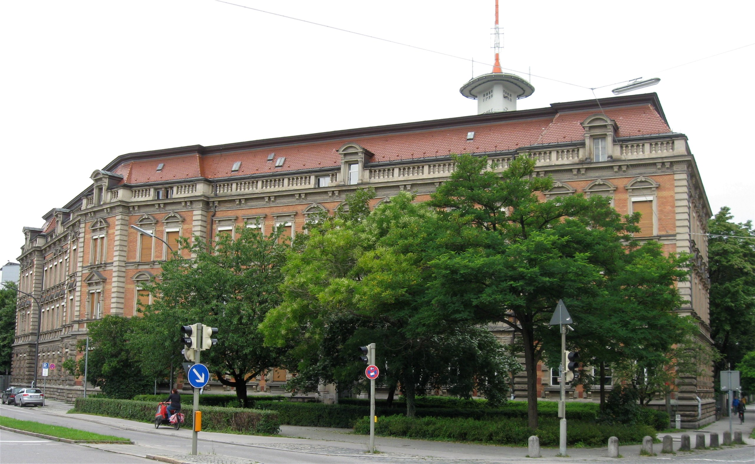 Munich, street Pappenheimstrasse 14; former Bavarian war academy, a rich structured avant-corps new-renaissance building, built 1889–90 by Gustav Freiherr von Schacky, 1949 rebuilt as urban hospital, today German Telekom.